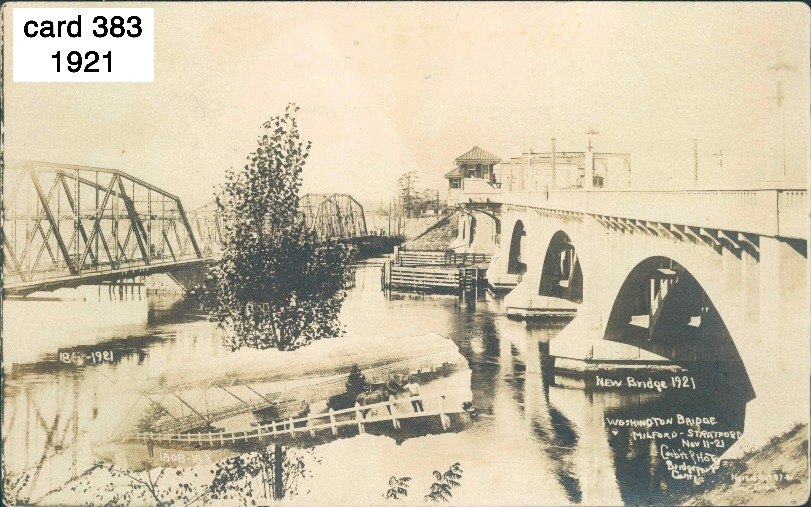 Postcard of the three incarnations of the Washington Bridge